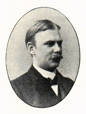 Swedish liberal journalist Natanael Petrus (Per) Ollén (1879-1965)